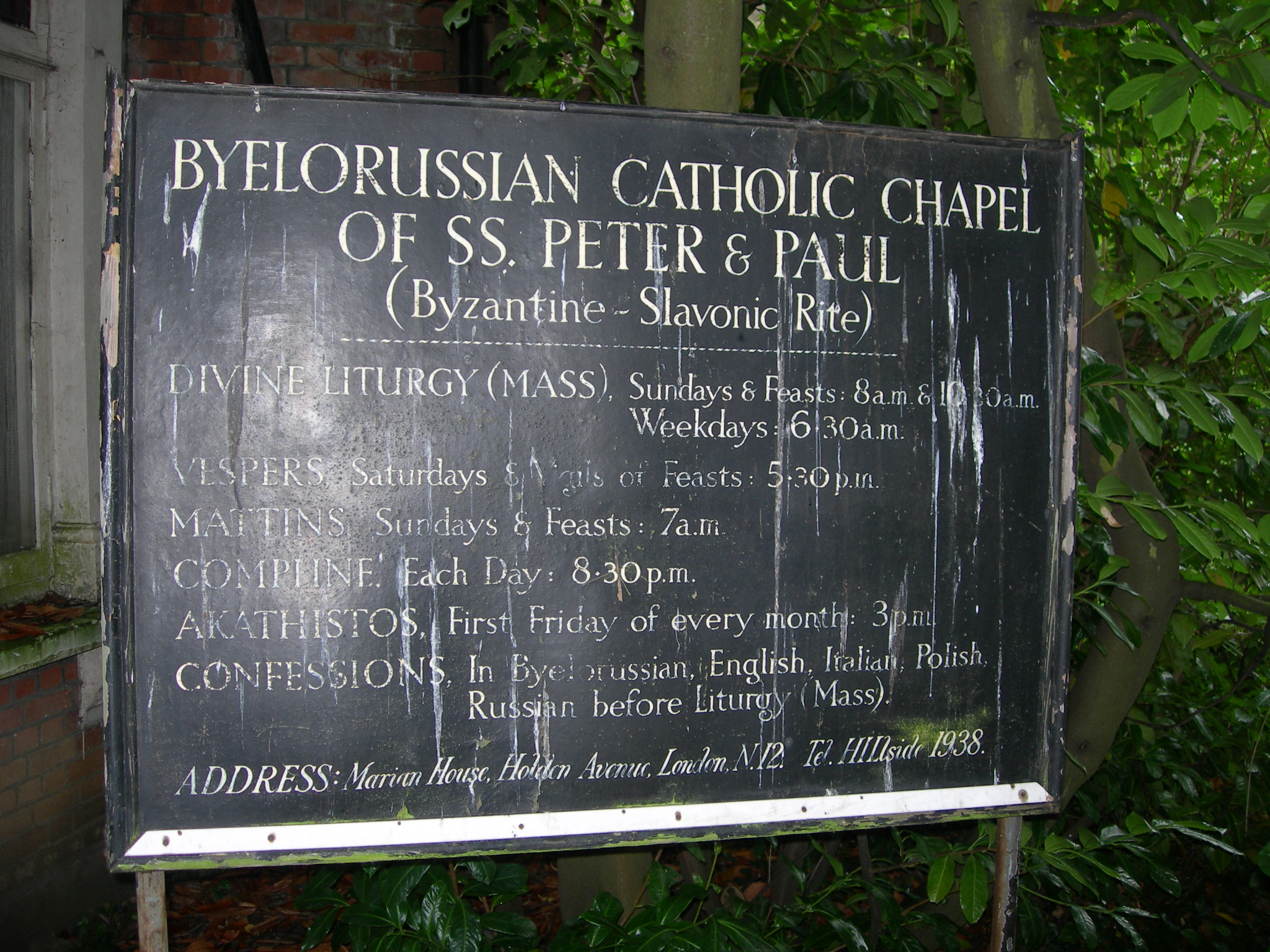 Sign at the former building of the Belarusian church, Marian House, Holden Avenue, Woodside Park, London N12